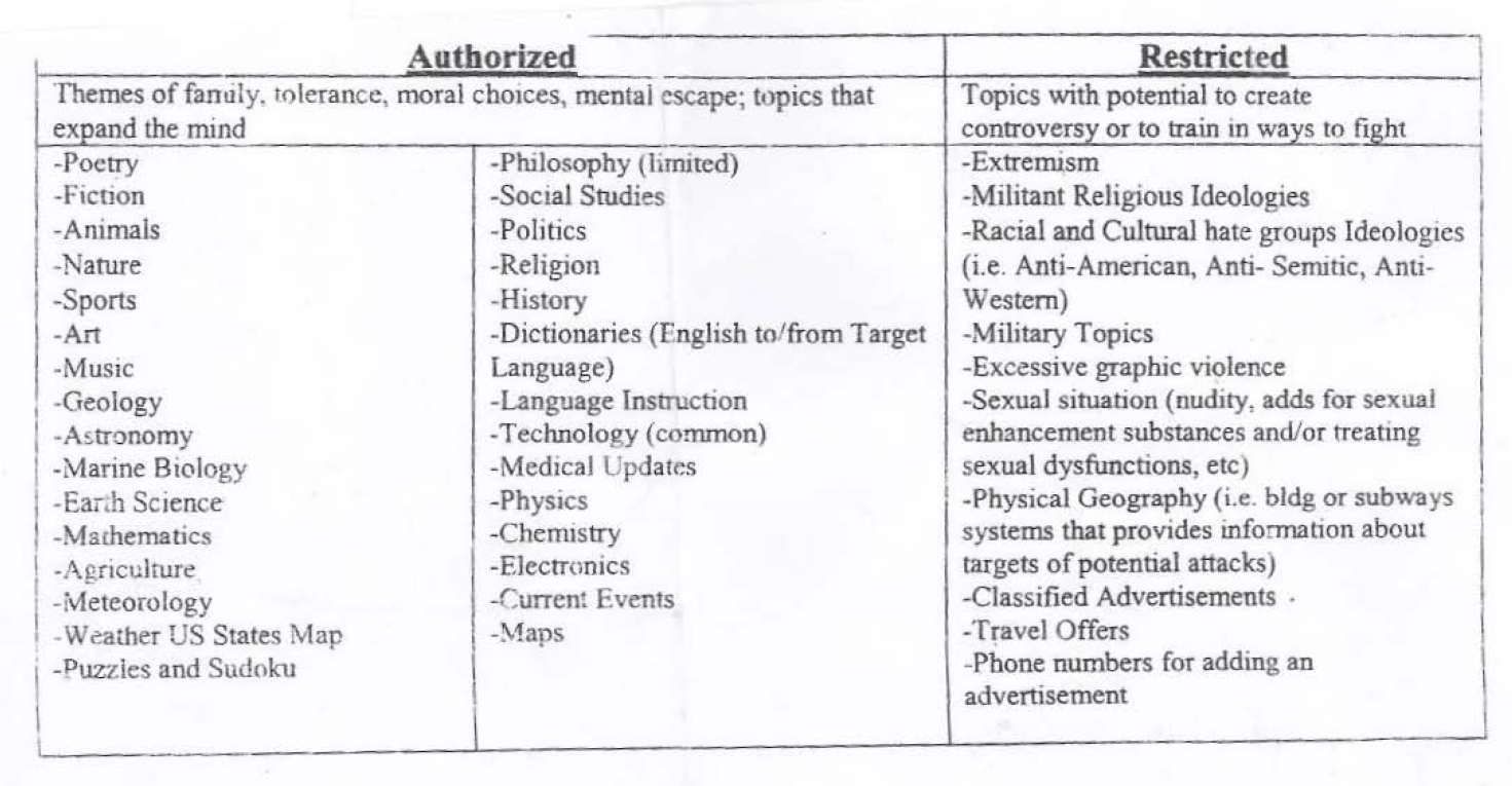 Guidelines for the lending policy for captives held at Guantanamo